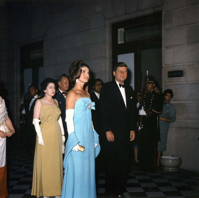 30 June 1962 President Kennedy's trip to Mexico. Reception in honor of the President and First Lady. President Kennedy, Mrs. Kennedy, Mrs. Manuel Tellos, Foreign Minister of Mexico Manuel Tellos, others. Mexico City, Mexico, Foreign Ministry.